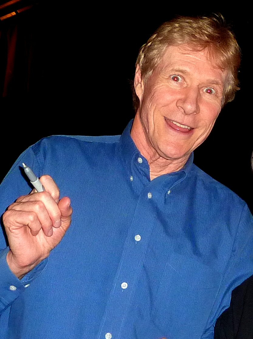 Paul Jones, Sevenoaks, Kent June 2011